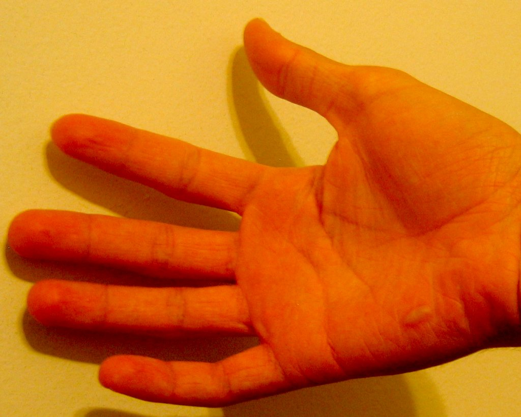 scald on my hand from a frying pan